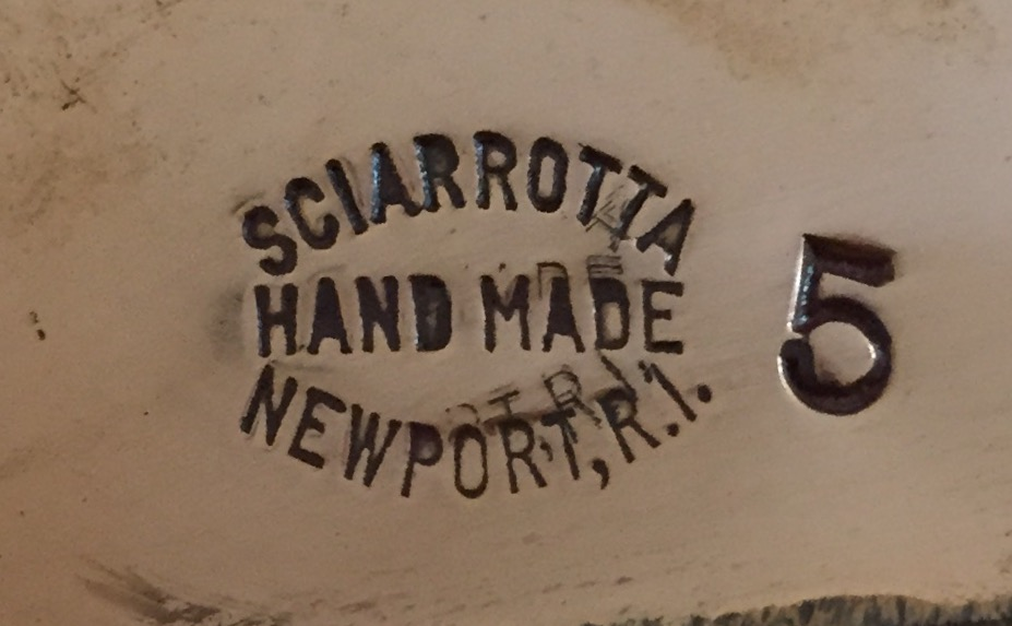 Alfredo Sciarrotta trademark